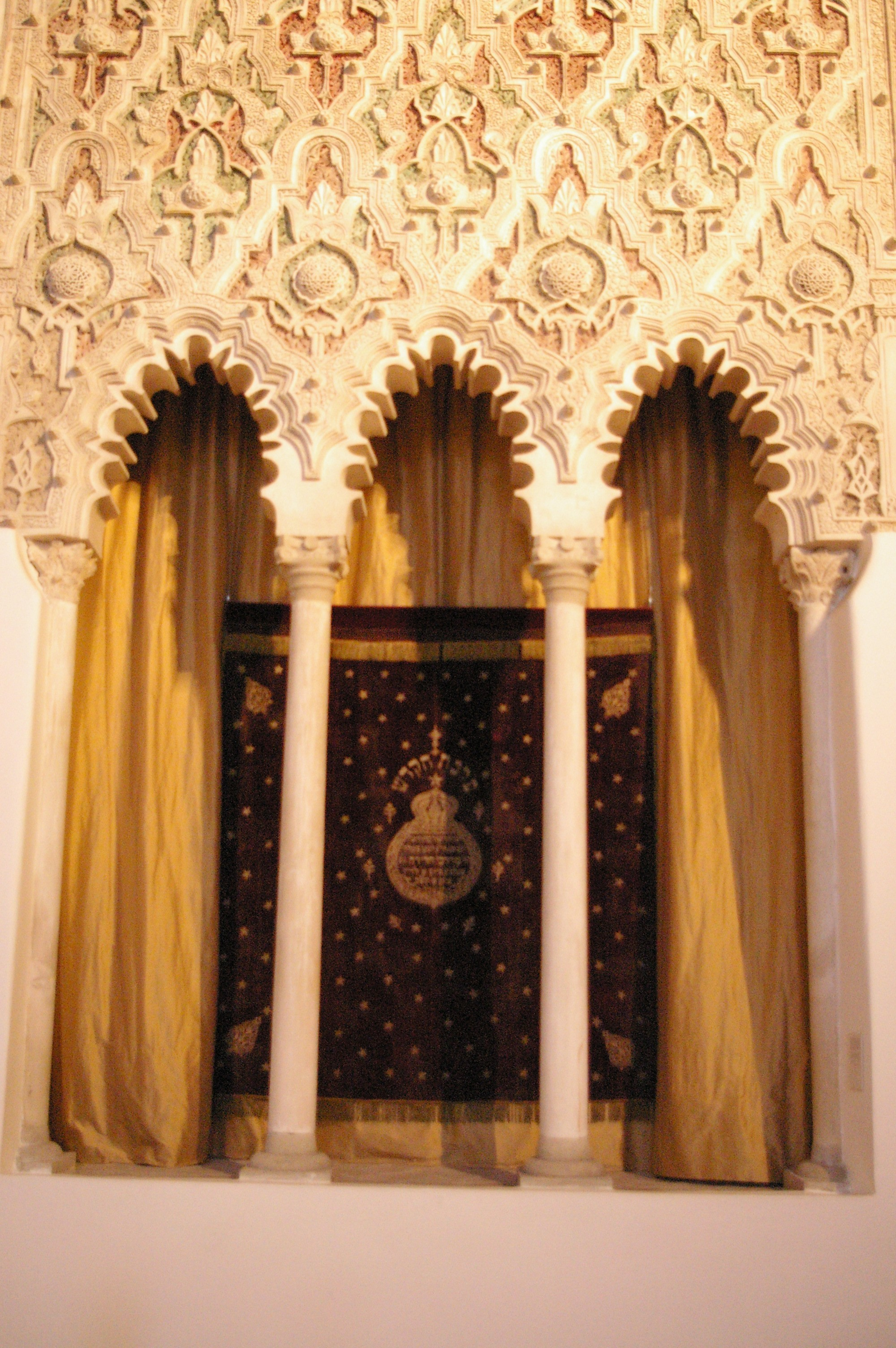 Toledo's Synagogue